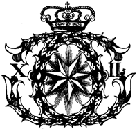 The monogram of Charles XII of Sweden